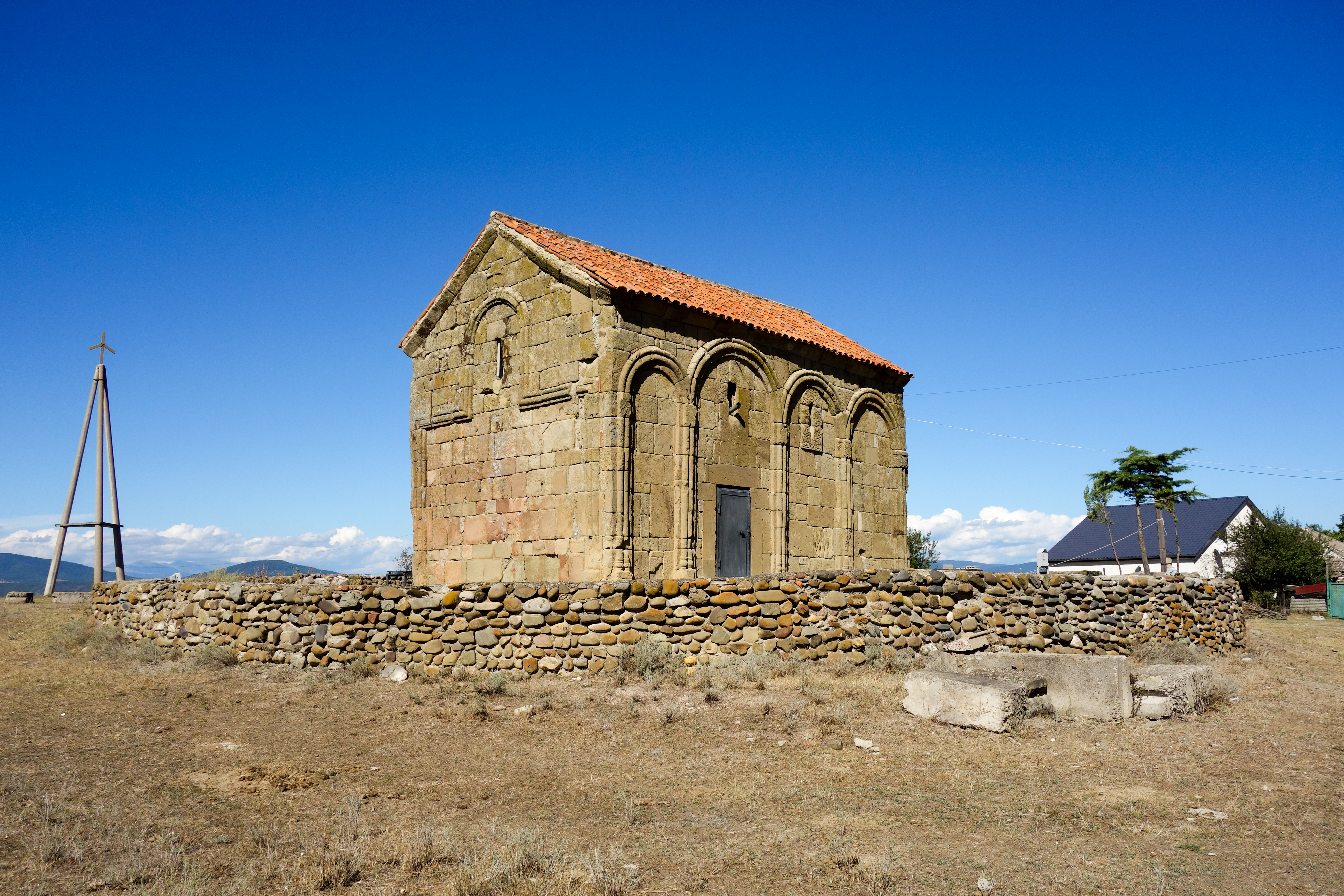 Trinity Church, Tserovani, Mtskheta-Mtianeti, Georgia